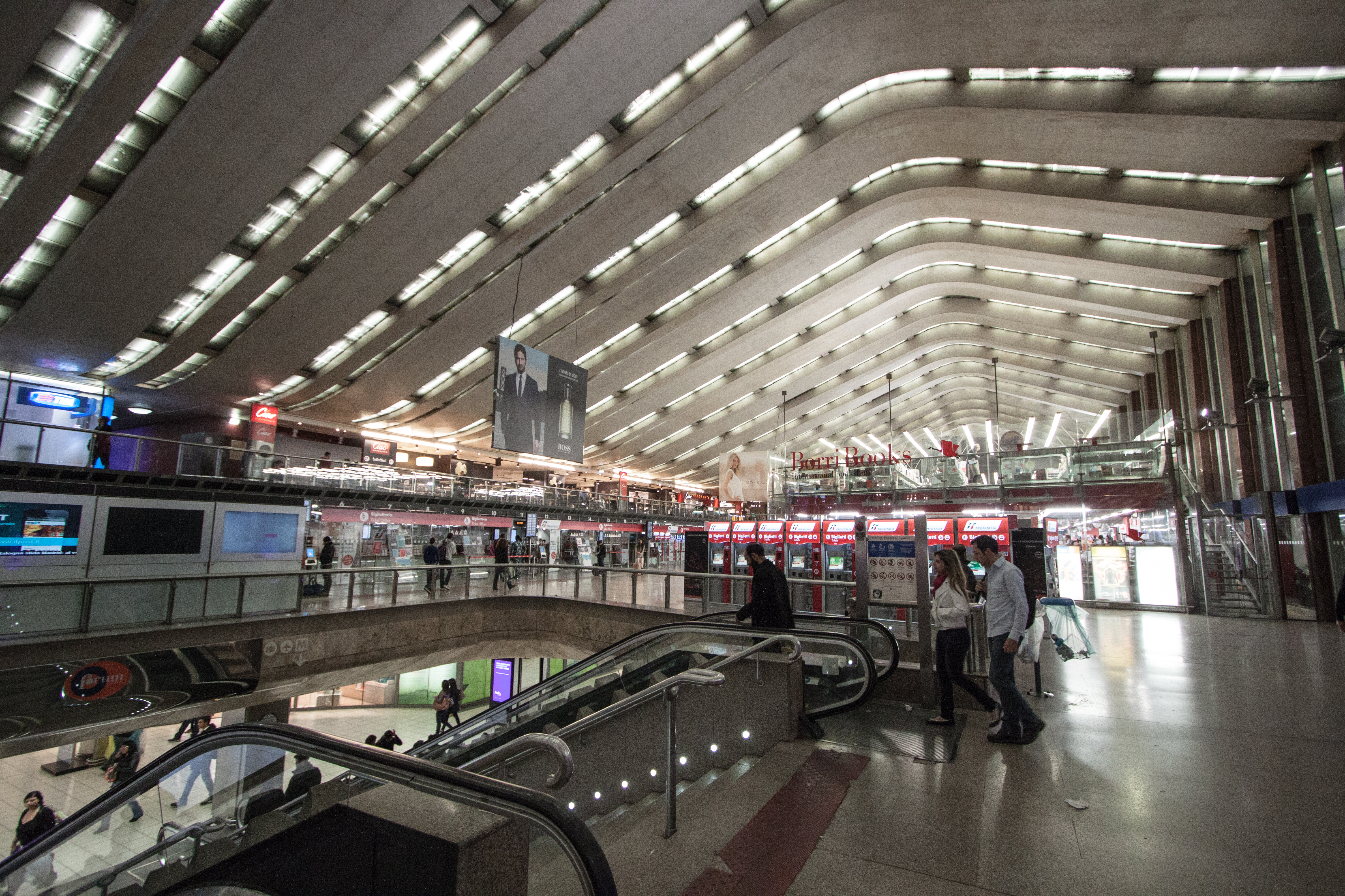 Roma Termini - New passenger building - Interior